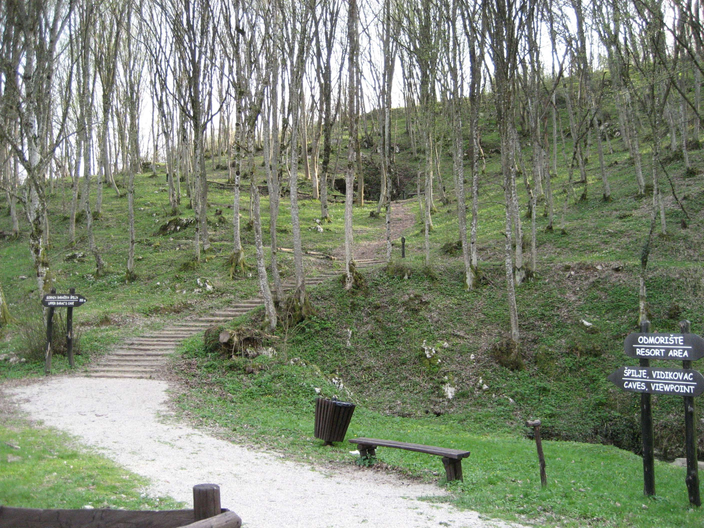 Baraceve Spilje, caves near Rakovica, Croatia